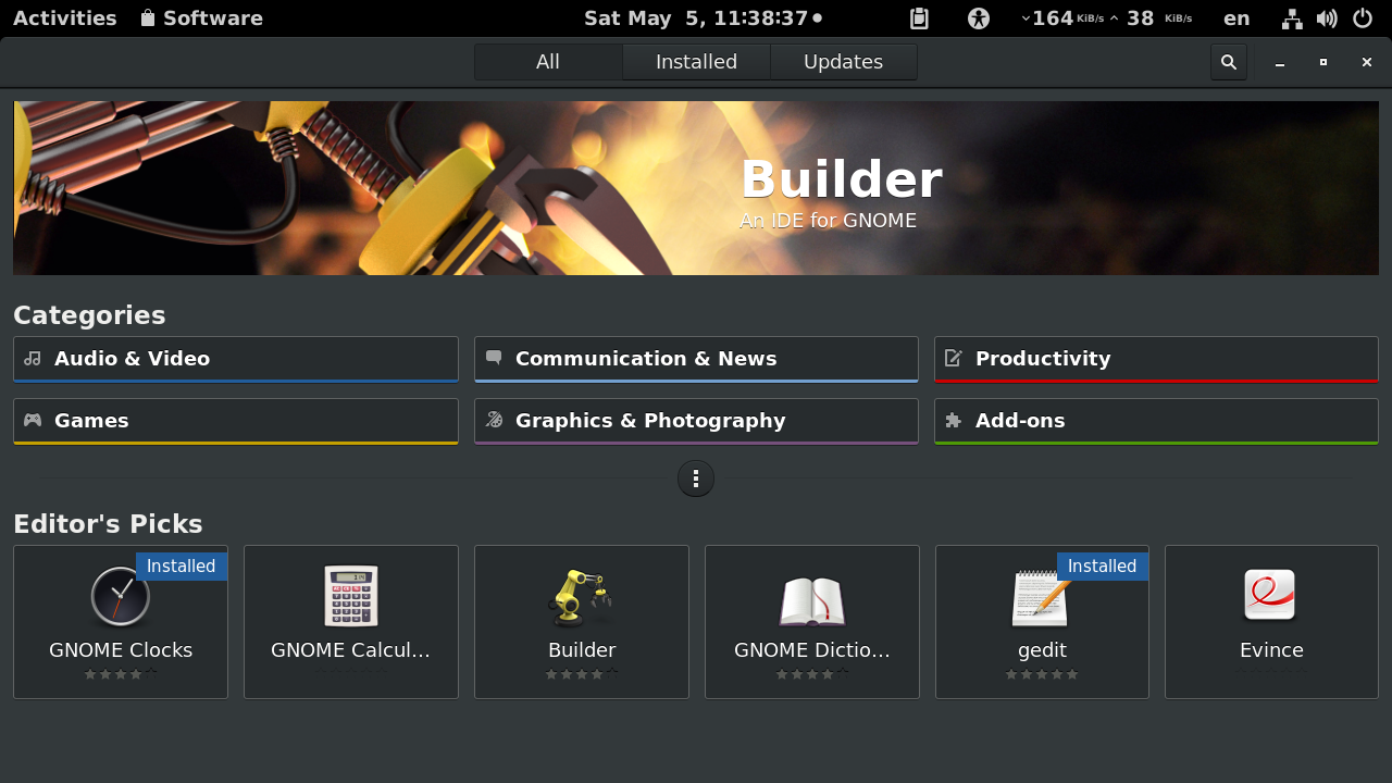 GNOME Software 3.22 on Debian 9 - dark adwaita theme